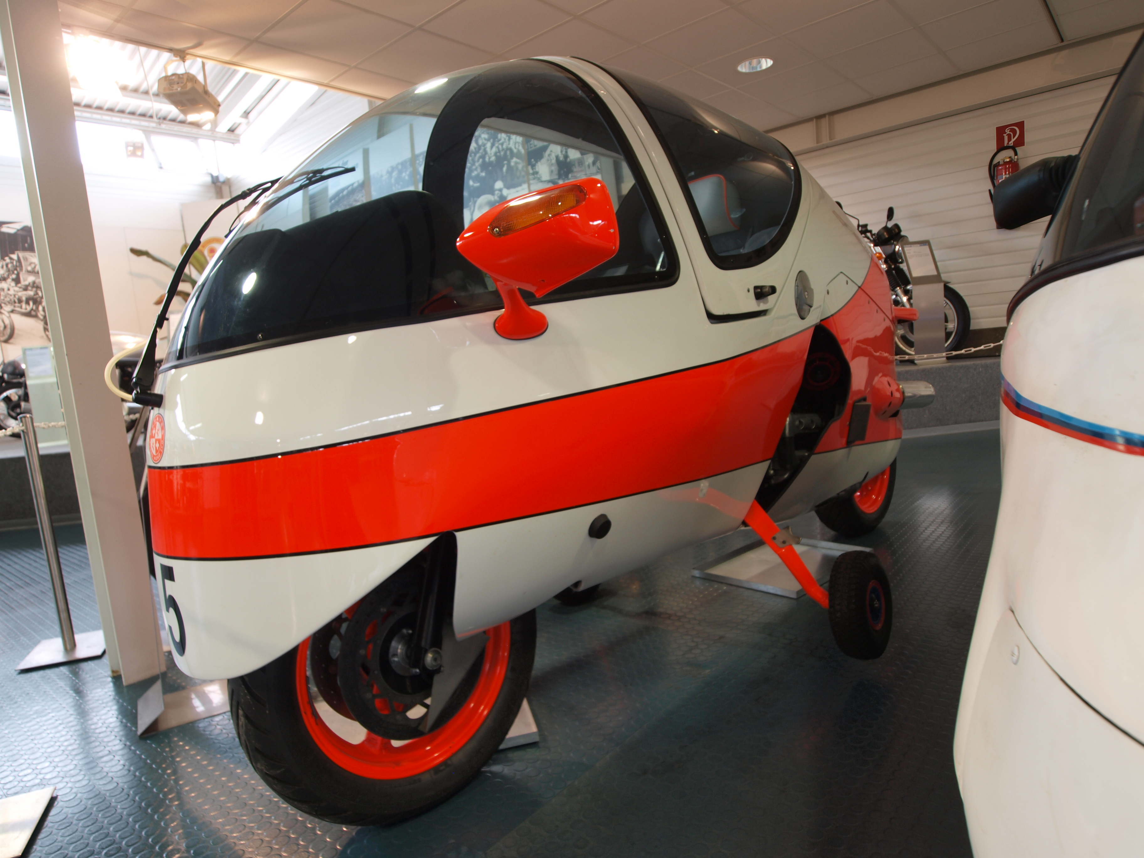 Photographed at the Motor-Sport-Museum am Hockenheimring, Germany.